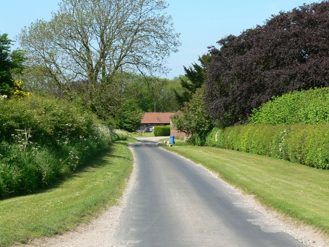 Entering Gardham, East Riding of Yorkshire, England.Gardham consists only of a farm and a handful of cottages.